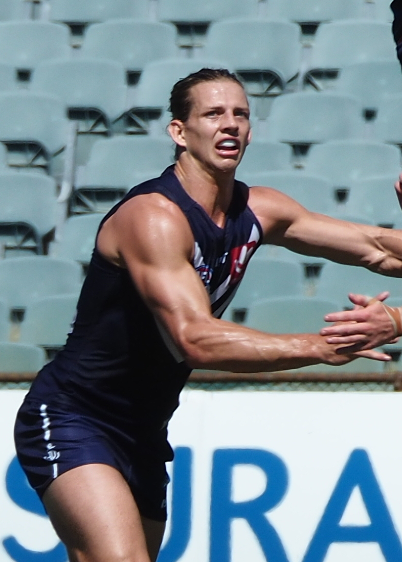 Jon Griffin (#12, Fremantle Football Club) and Zac Smith (Geelong Football Club) compete in the ruck in March 2016. Nat Fyfe, Nic Suban (#8) and Mitch Duncan (#22) wait for the tap.